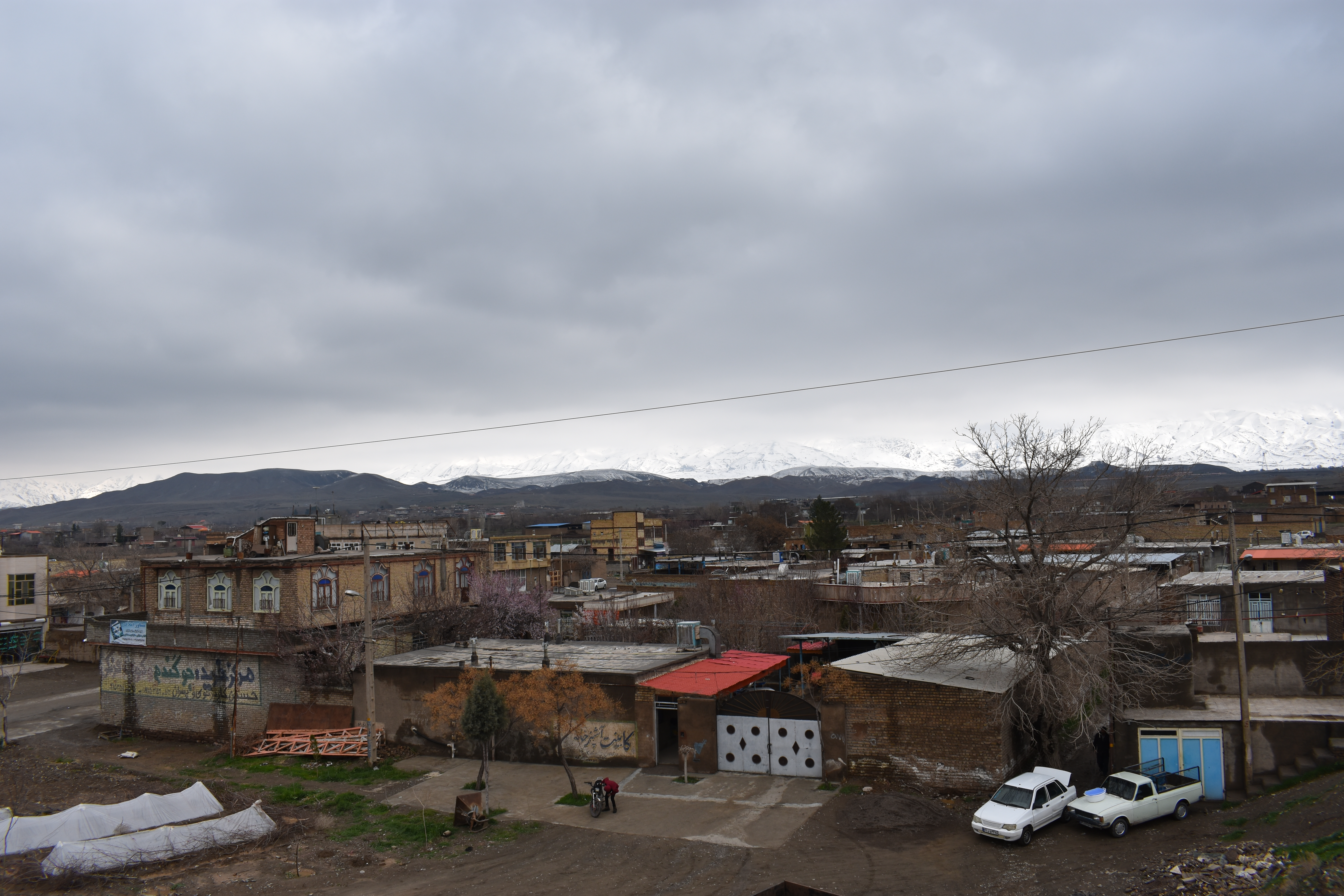 This image was taken on Wednesday, March 29, 1977 at 08:28:44 am by Ali Mohammadi from the northern area of HajjiAbad village of Zibarkhan Neyshabur on the Neyshabur-Mashad Road overpass.